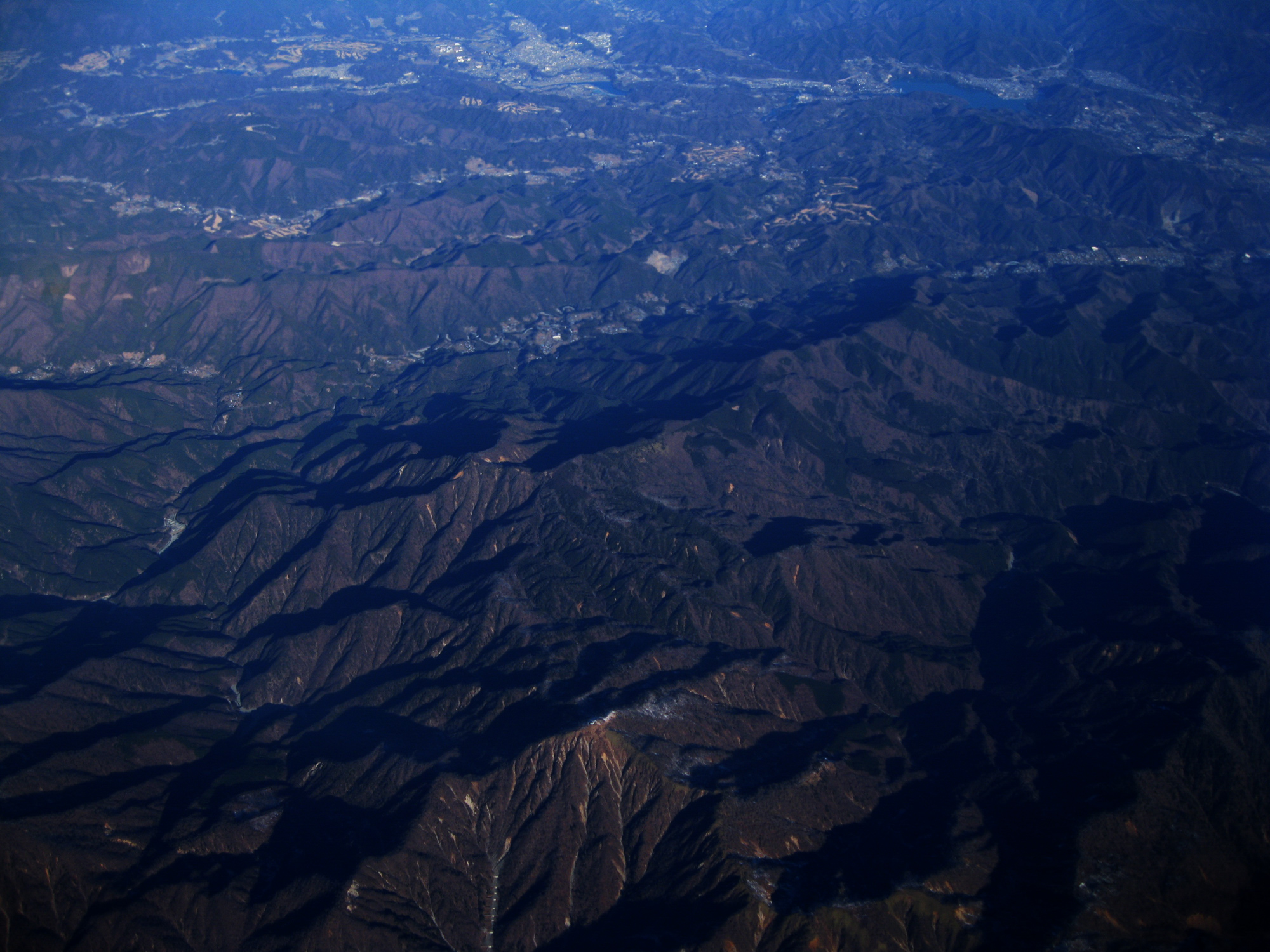 Tanzawa Mountains seen from the South.